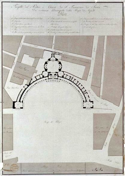 Disegno progetto emiciclo